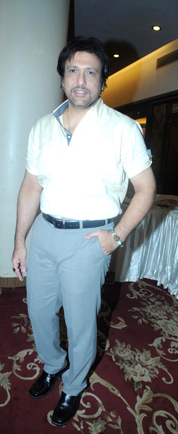 Govinda at Mother Teresa International Award in 2011